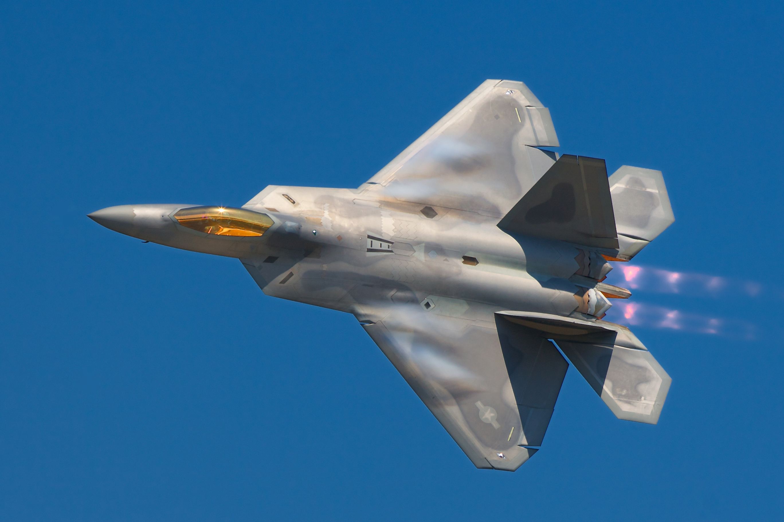 A Lockheed Martin F-22A Raptor fighter streaks by the ramp at the 2008 Joint Services Open House (JSOH) airshow at Andrews AFB. Despite many great performances most of those at the show wanted to see the latest USAF fighter. The F-22 did not disappoint! You can just see the vapor trails forming on the wings of this F-22. I also find that the pulsed look of the F-22's engines to be a really interesting visual effect. I've got to imagine that this would be a very bad view for an opposing fighter pilot to see. Photo taken with my Canon 30D and through a rented Canon EF 300mm f/2.8L IS USM lens.